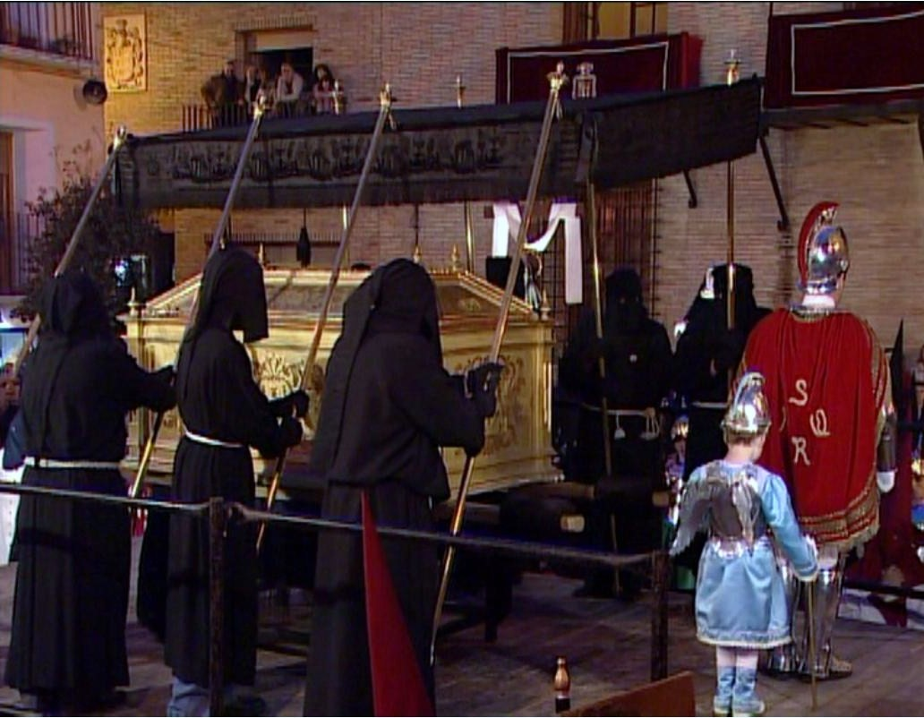 Entierro de Cristo (Borja)